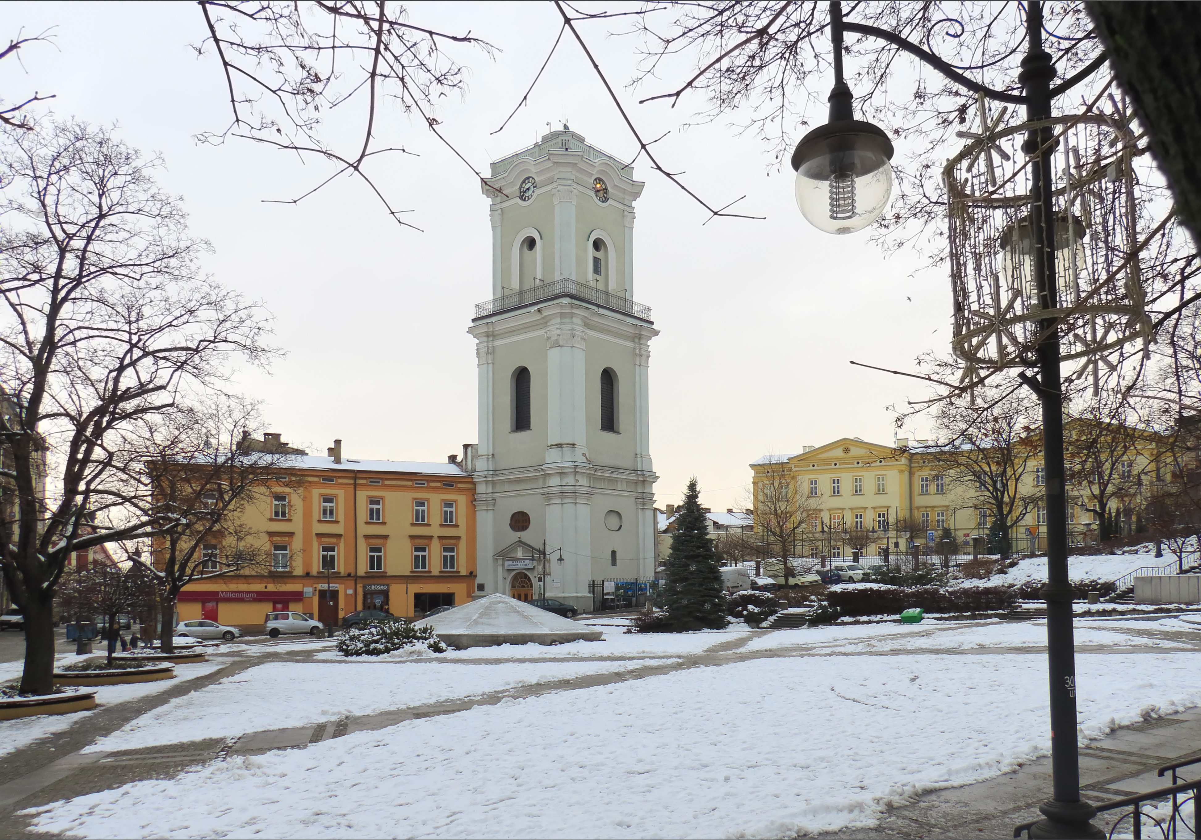 Clock tower in Przemyśl